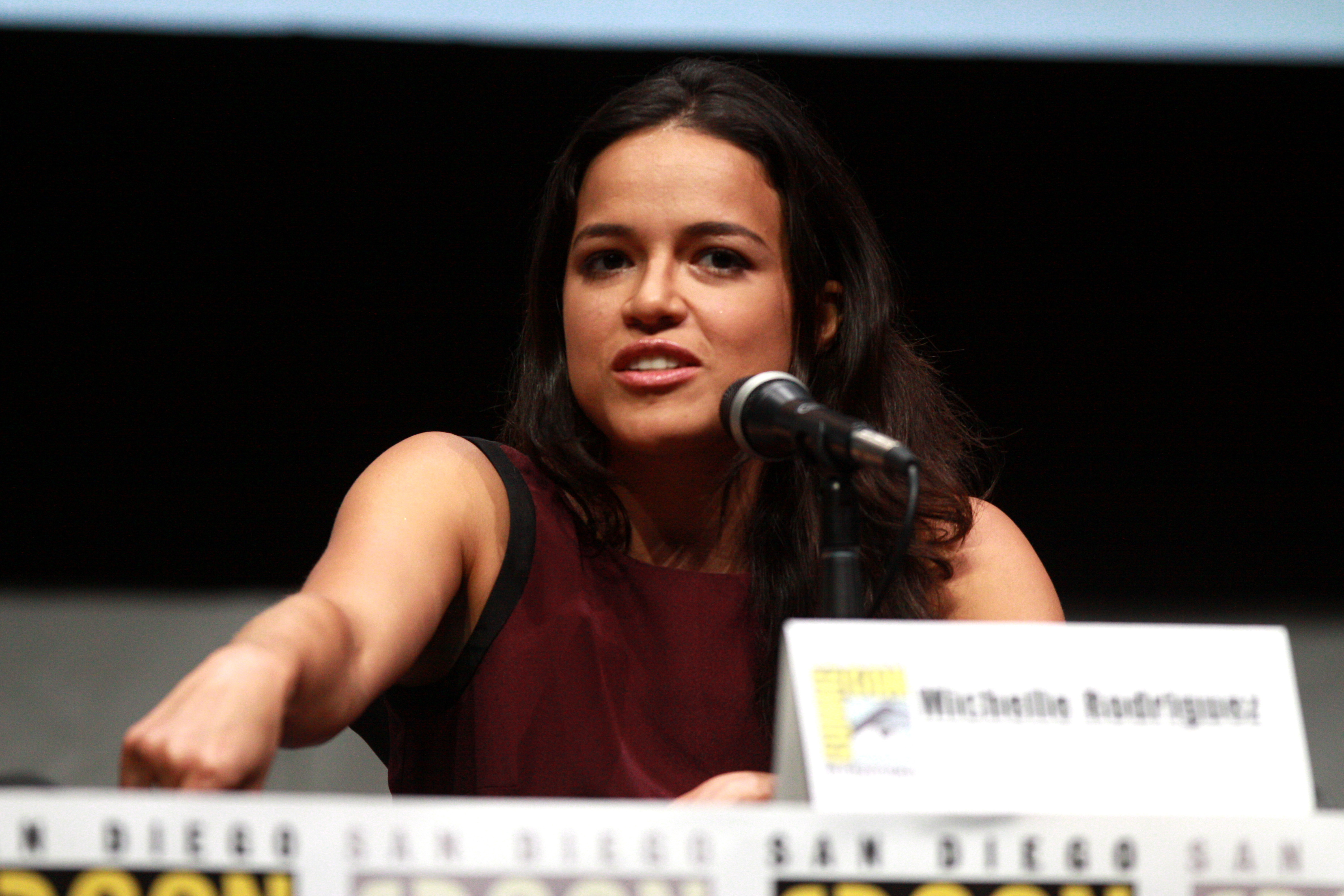 Michelle Rodriguez speaking at the 2013 San Diego Comic Con International, for Entertainment Weekly's "Women Who Kick Ass" panel, at the San Diego Convention Center in San Diego, California.